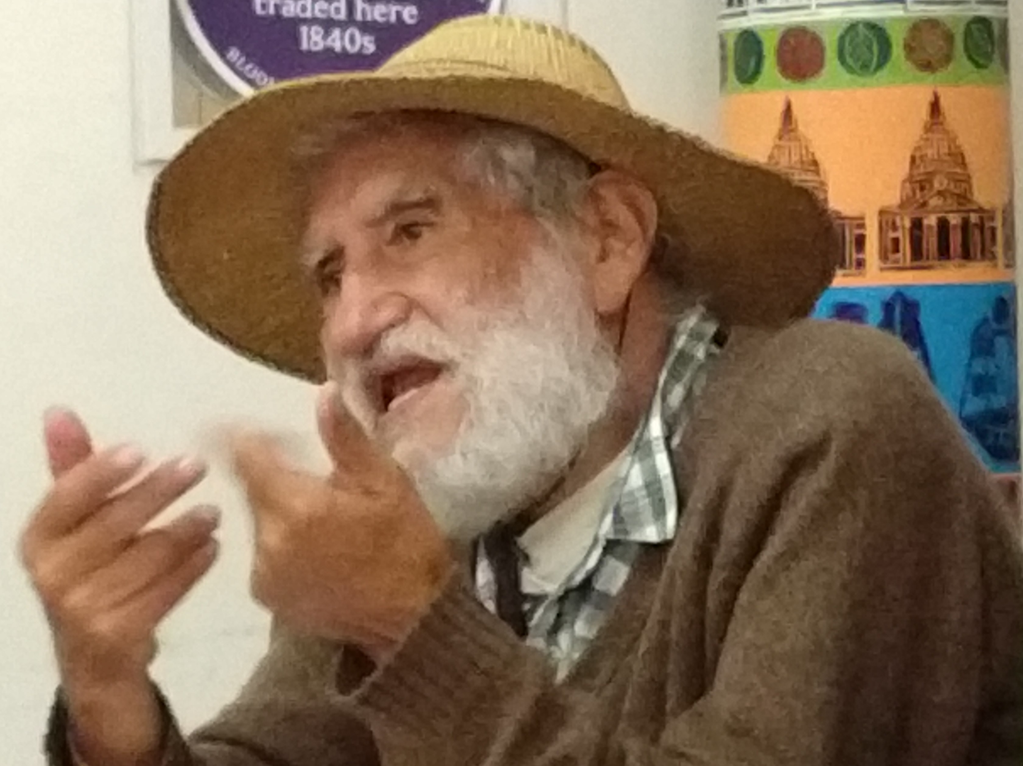 Hugo Blanco speaking at a meeting in London, 26 Febryary 2019